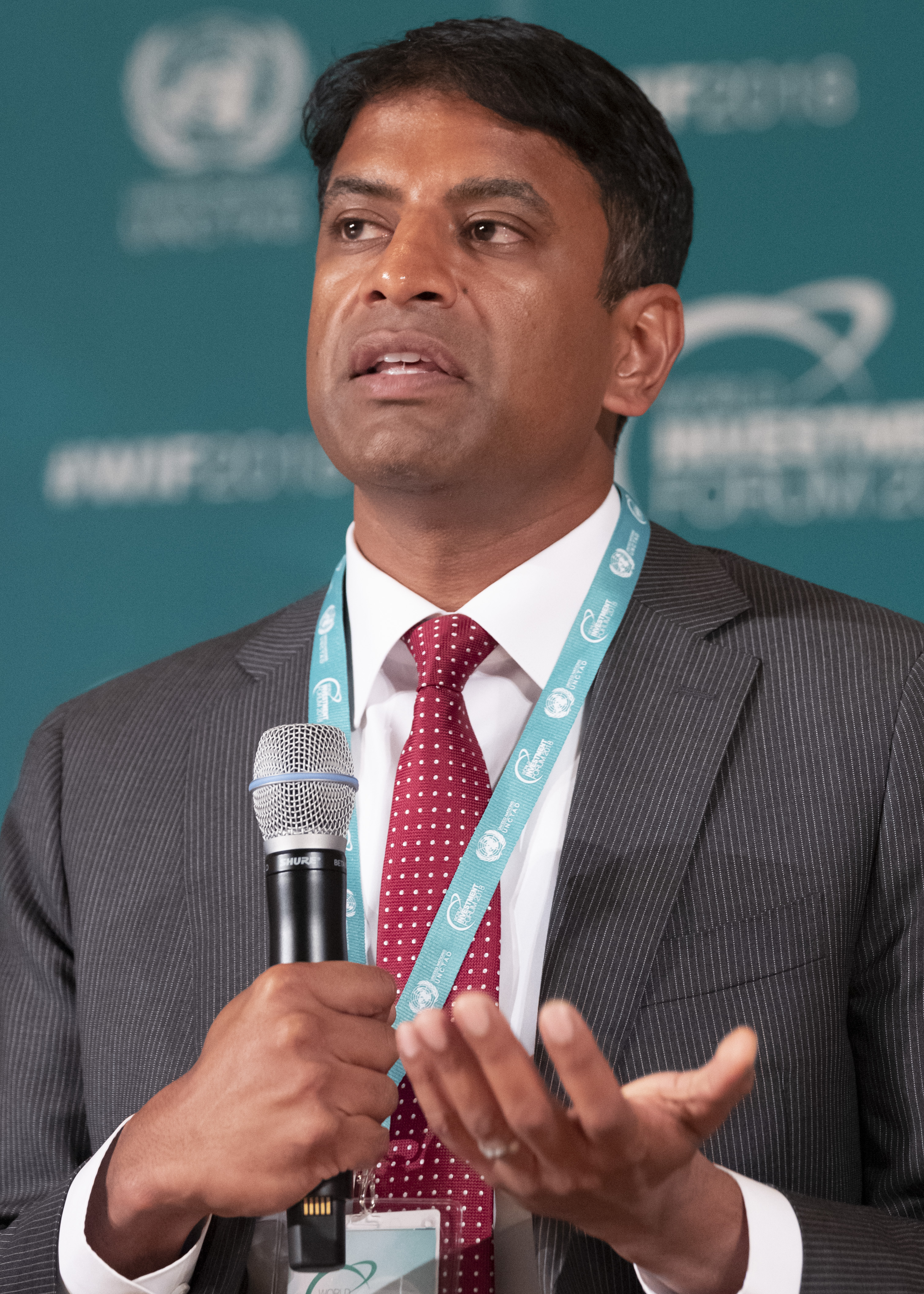 Vasant Narasimhan, CEO, Novartis at a Panel Global Leaders Investment Summit I Investment in a new era of globalization during the Word Investment Forum 2018. 23 october 2018. UNCTAD Photo/Jean Marc Ferré